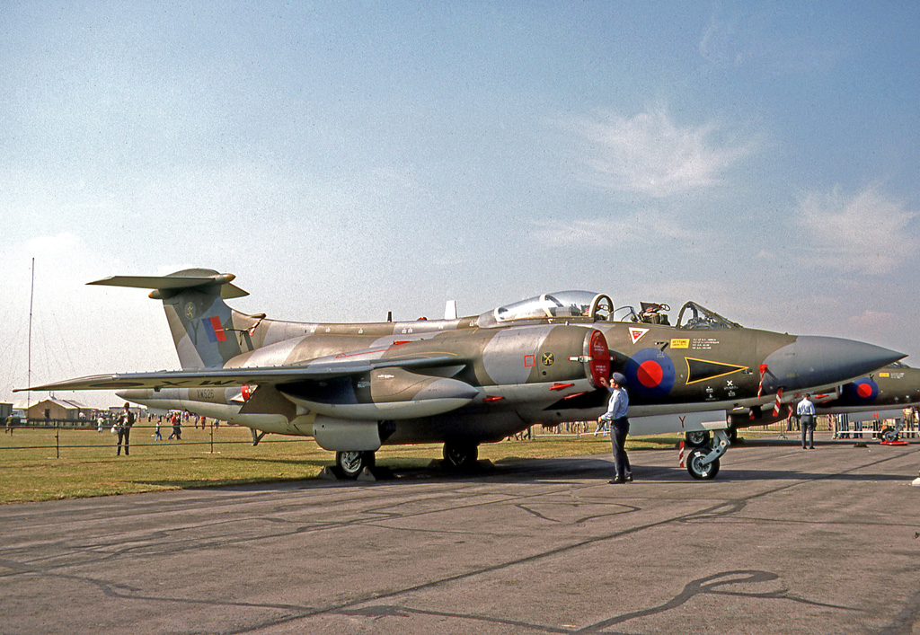 Hawker Siddeley Buccaneer S.2B XW526 'Y' of No. 16 Squadron RAF at RAF Finningley in 1977